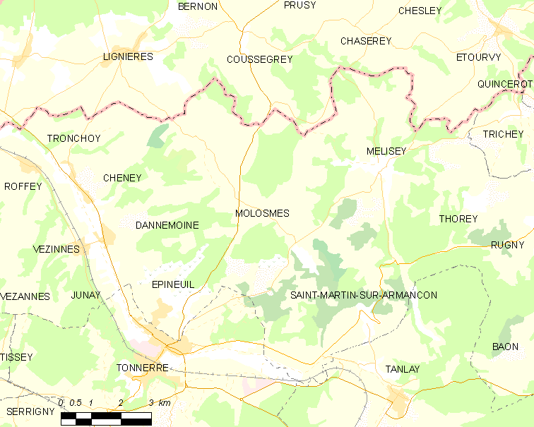 Map of French municipality Molosmes